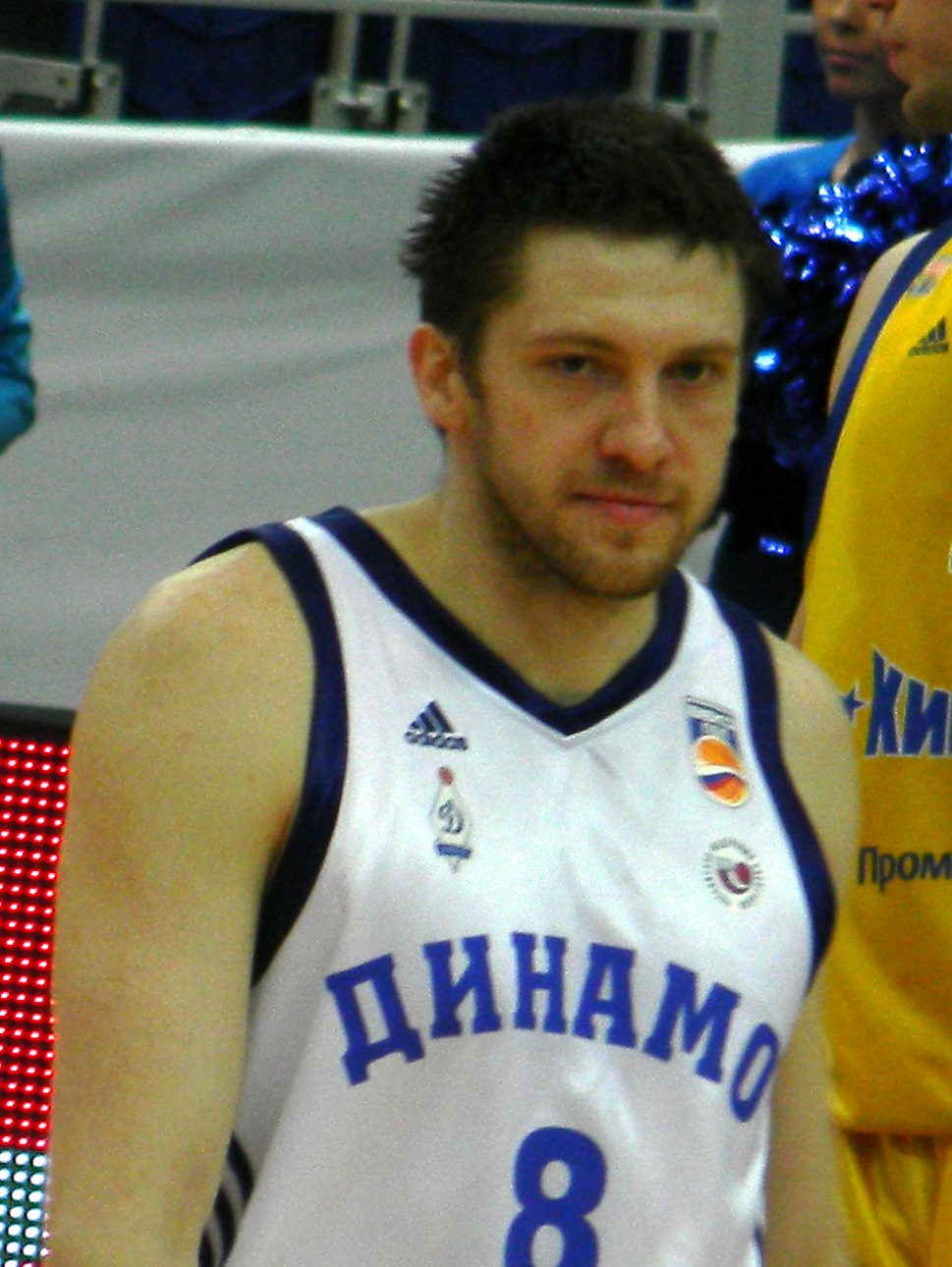 Evgeny Voronov, russian Basketball player, at all-star PBL game 2011